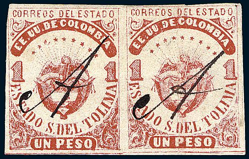 1871, 1 peso carmine, good impression and rich color for this stamp, mostly large margins, just a bit clipped at top left corner, twice cancelled in manuscript “A”. Slight thin specks and vertical crease at left. The largest and only recorded multiple used. Cert. Bortfeldt. Catalogue: Sc. 12, Yv. 7.